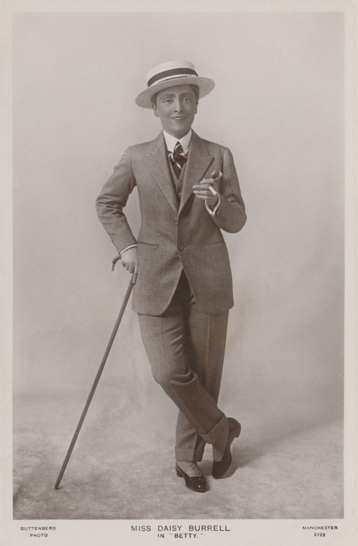 Theatrical postcard, Miss Daisy Burrell in "Betty", numbered "Manchester 2122".